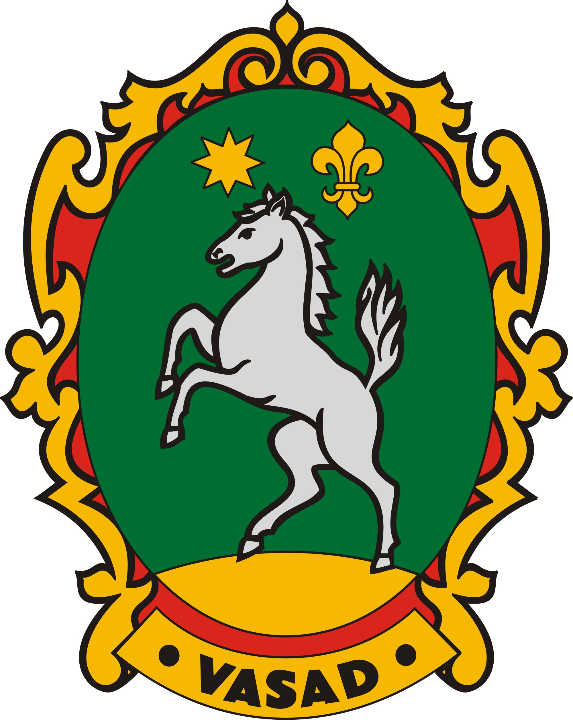 Coat of arms of Vasad, Hungary